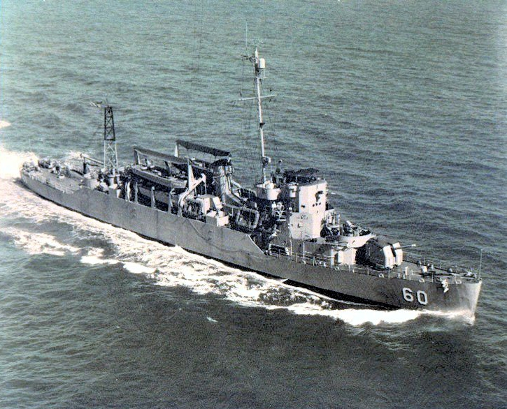 The U.S. Navy high-speed transport USS Liddle (APD-60) underway at sea, circa in 1954.